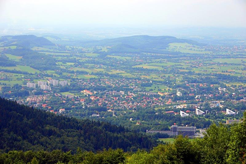 Ustron (Poland)